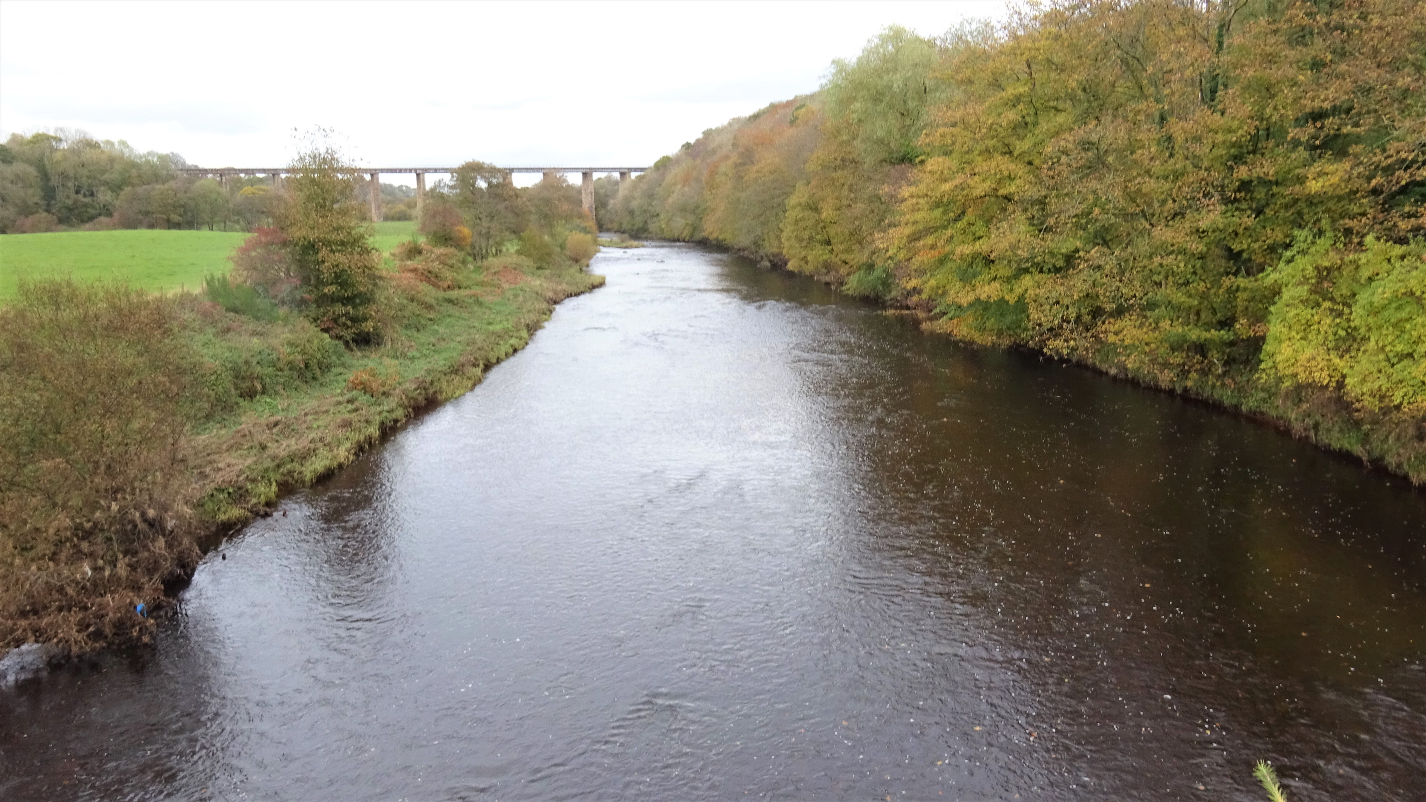 River Ayr from Gadgirth Bridge, By Annbank, South Ayrshire. Gadgirth Woods and the Enterkine Viaduct.